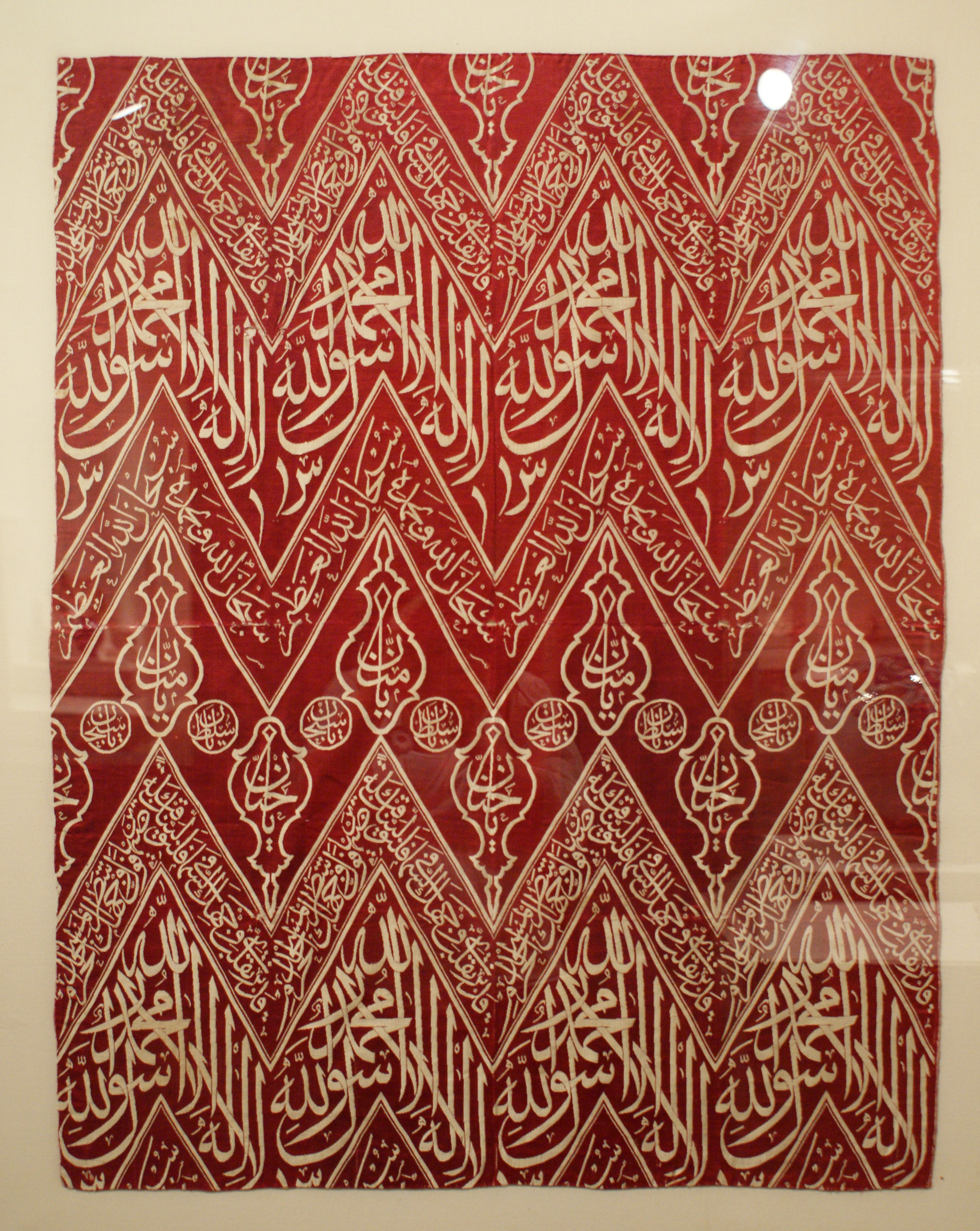 Textile Fragment, 17th century. Brocaded white silk on satin ground. Brooklyn Museum, Gift of Mr. and Mrs. Charles K. Wilkinson, 67.201.3. Wikipedia Loves Art at the Brooklyn Museum This photo of item # [1] at the Brooklyn Museum was contributed under the team name "Opal_Art_Seekers_4" as part of the Wikipedia Loves Art project in February 2009. Brooklyn Museum The original photograph on Flickr was taken by griannan—please add a comment to the original Flickr page whenever a use has been made on Wikipedia or another project. Project galleries on Flickr: this institution, this team